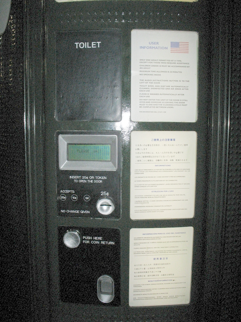 Pay toilet